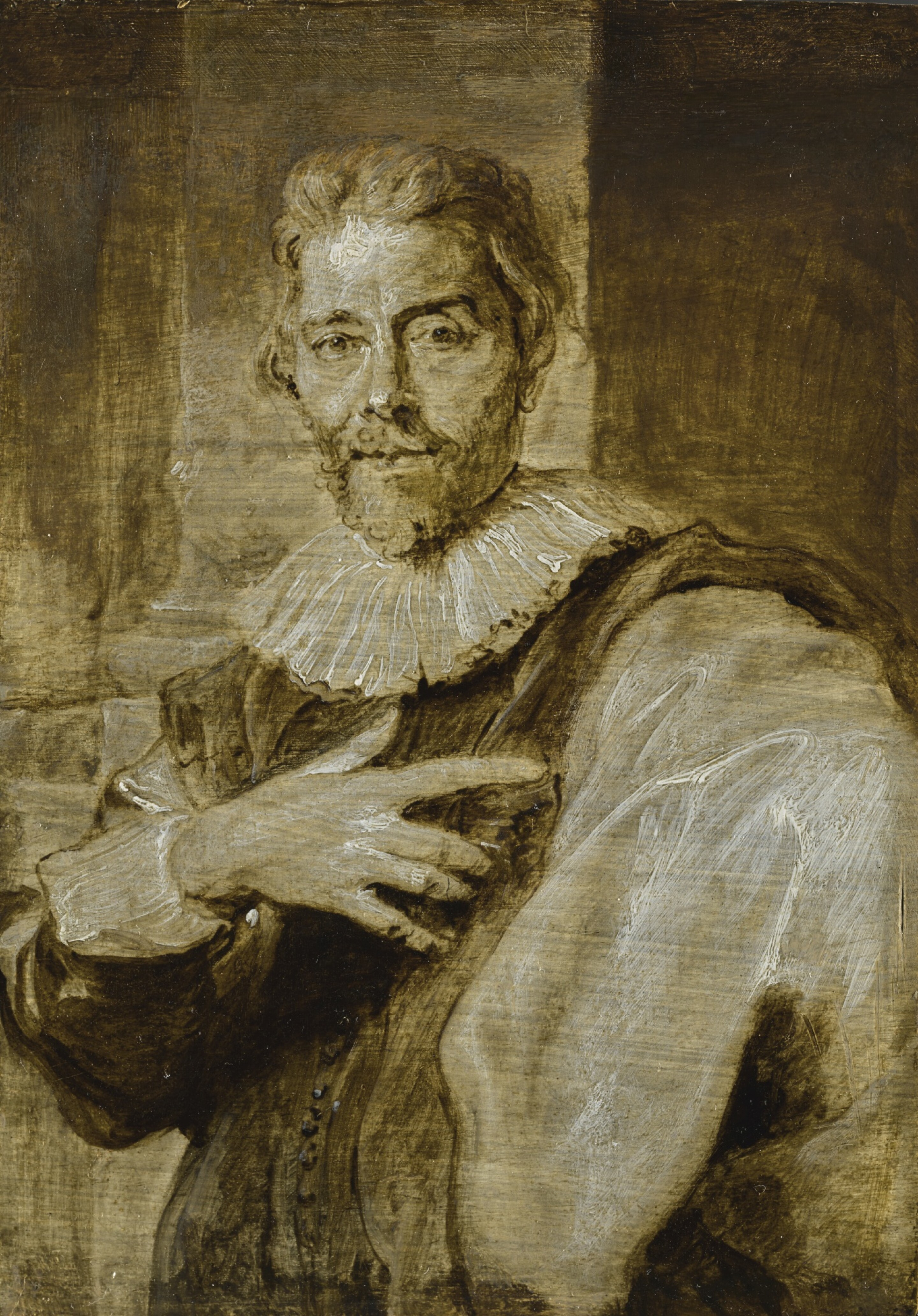 Jean-Baptiste Barbé oil on panel, en grisaille 23.6 x 16.5 cm 1630-1641